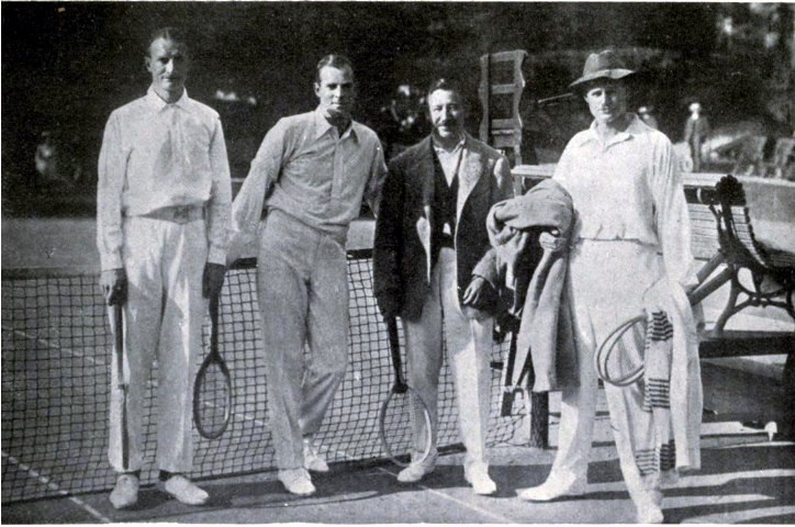 Top tennis players at Beau Site Courts, Cannes, France, 1914. Depicted persons, from left: Francis Gordon Lowe (1884-1970) Anthony Wilding (1883-1915) George Mietville Simond (1867-1941) Craig Biddle (1879-1947)